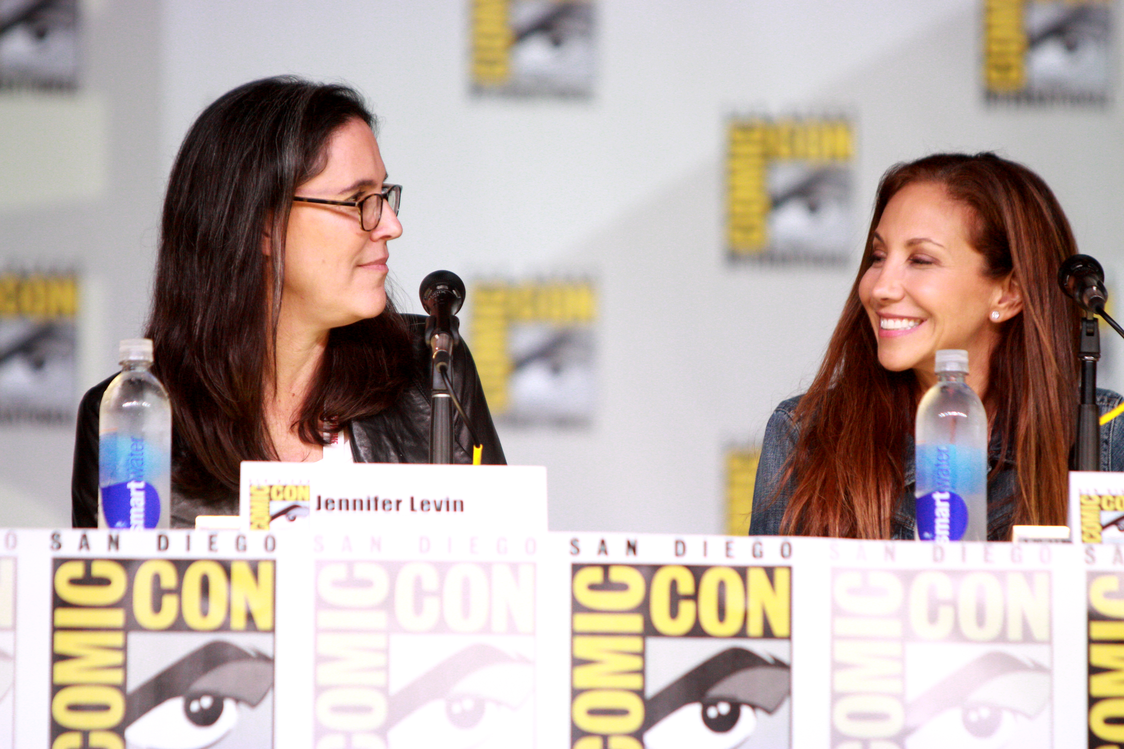 Sherri Cooper and Jennifer Levin speaking at the 2013 San Diego Comic Con International, for "Beauty and the Beast", at the San Diego Convention Center in San Diego, California.